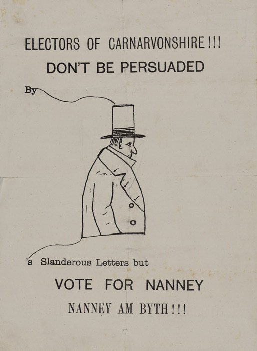 Electors of Carnarvonshire